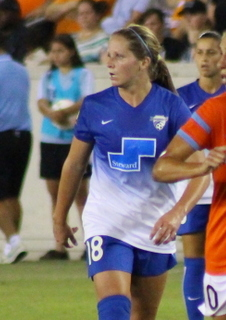 August 30, 2015 at BBVA Compass Stadium in Houston, Texas.